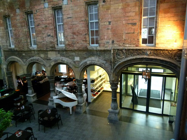 Courtyard with restaurant of the socalled Spanish Government building in Maastricht, the Netherlands, now part of Museum aan het Vrijthof. The 16th-century arcade is an example of the Liège Renaissance style. The portraits above the main arch are probably of the emperor Charles V and his sister, Mary of Hungary. View of the Renaissance courtyard arcade, of the former Spanish Government building.